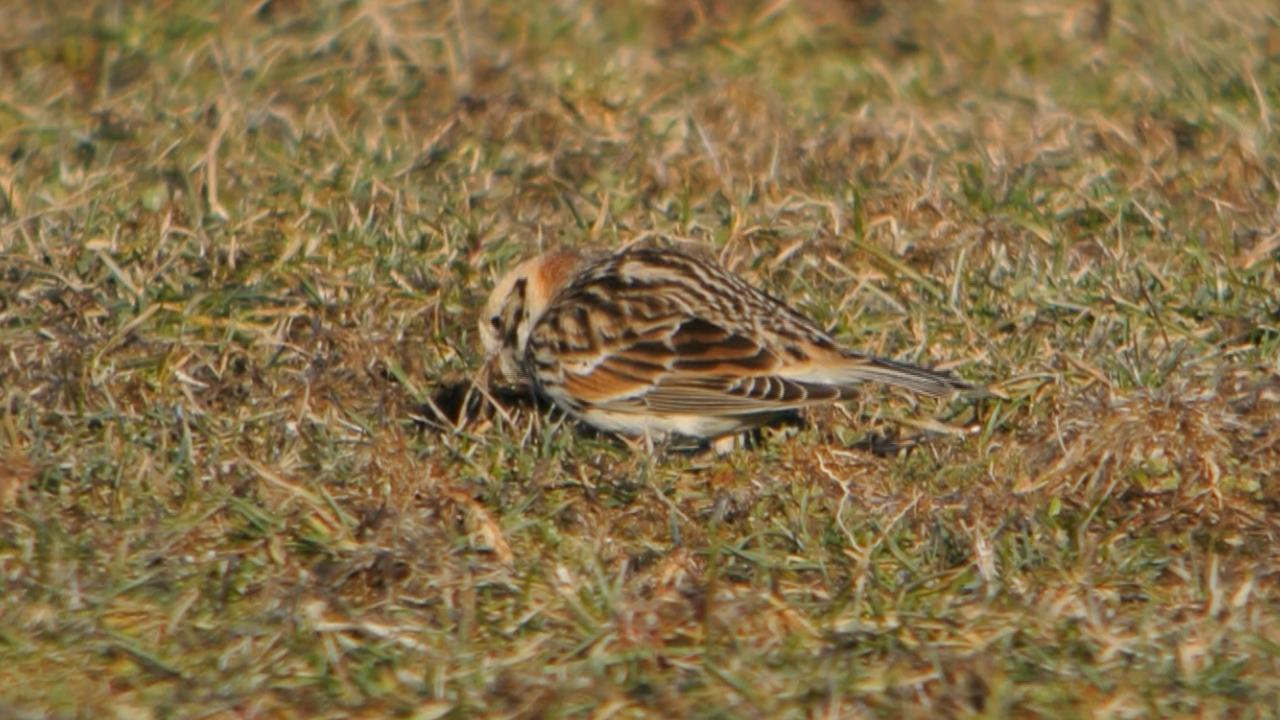 Carlyle Lake in Illinois on 1/29/12